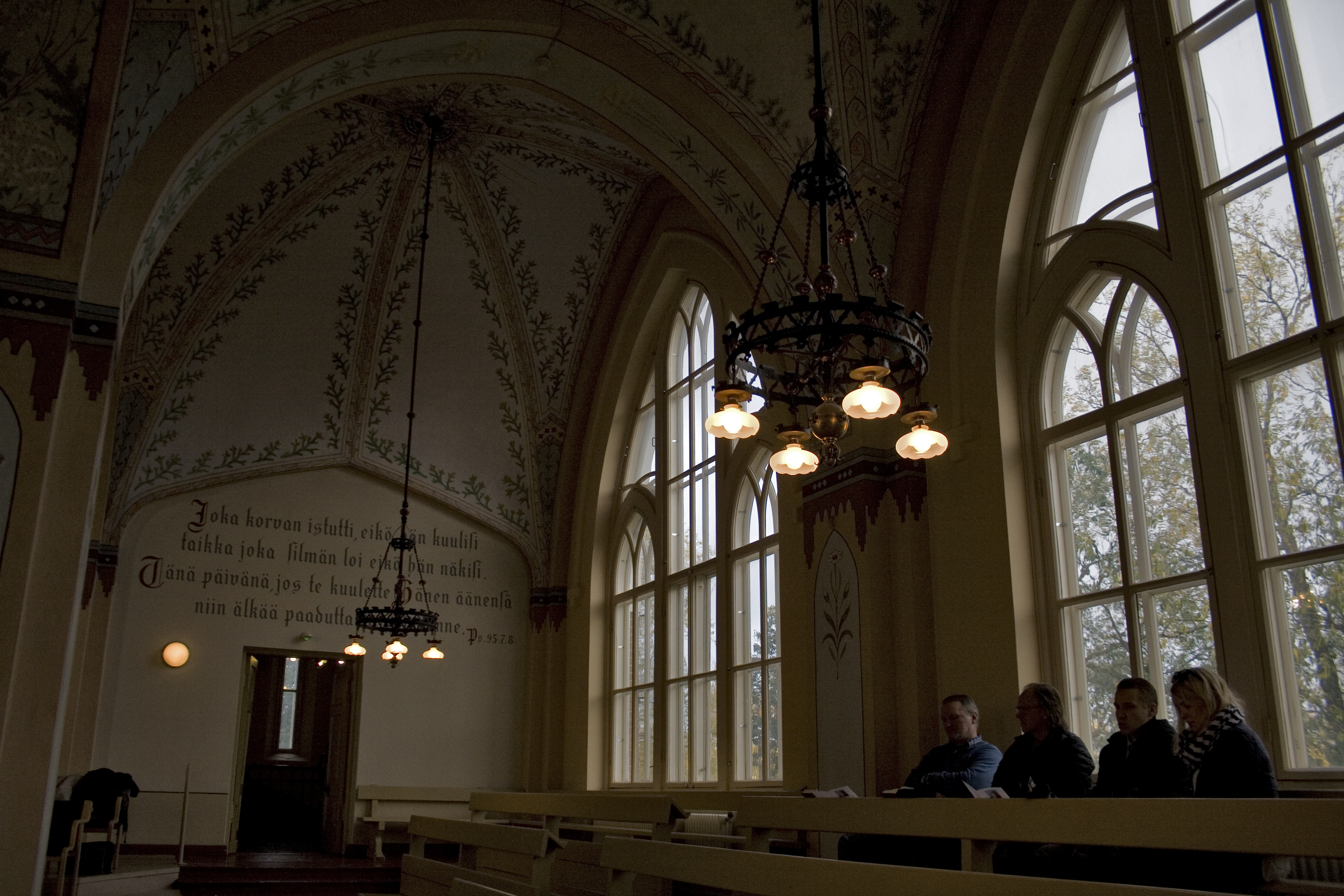 Evangelic church in Joensuu, Finland, 2015